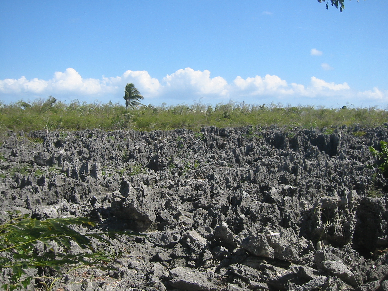 Taken by me, in may 2006. A picture of Hell, Grand Cayman, a tourist 'attraction' on the island. Hell is about the size of half a soccer field and consists of short black-ish limestone spires.